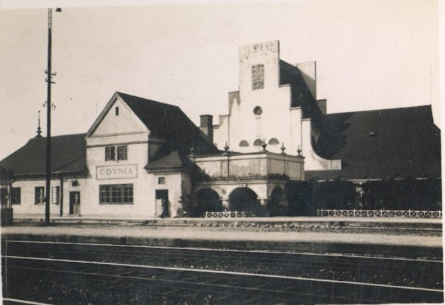 The nonexistent railway station in Gdynia. Built im 1923 , the project of Romuald Miller. Destroyed in progress of Second World War. Was found at the same place, what the present station Gdynia Główna.